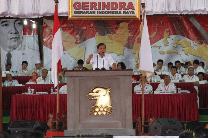 In this picture, Prabowo accepts the Great Indonesia Party's nomination for the 2014 presidential election in Lembah Hambalang, on March 17 2012